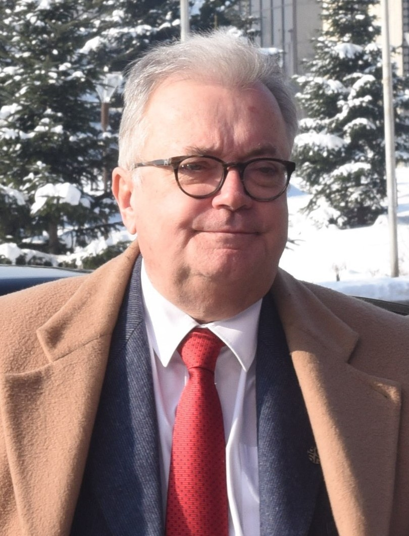 Luis Filipe de Castro Mendes, Minister of Culture of the Republic of Portugal Photo: Velislav Nikolov (EU2018BG)